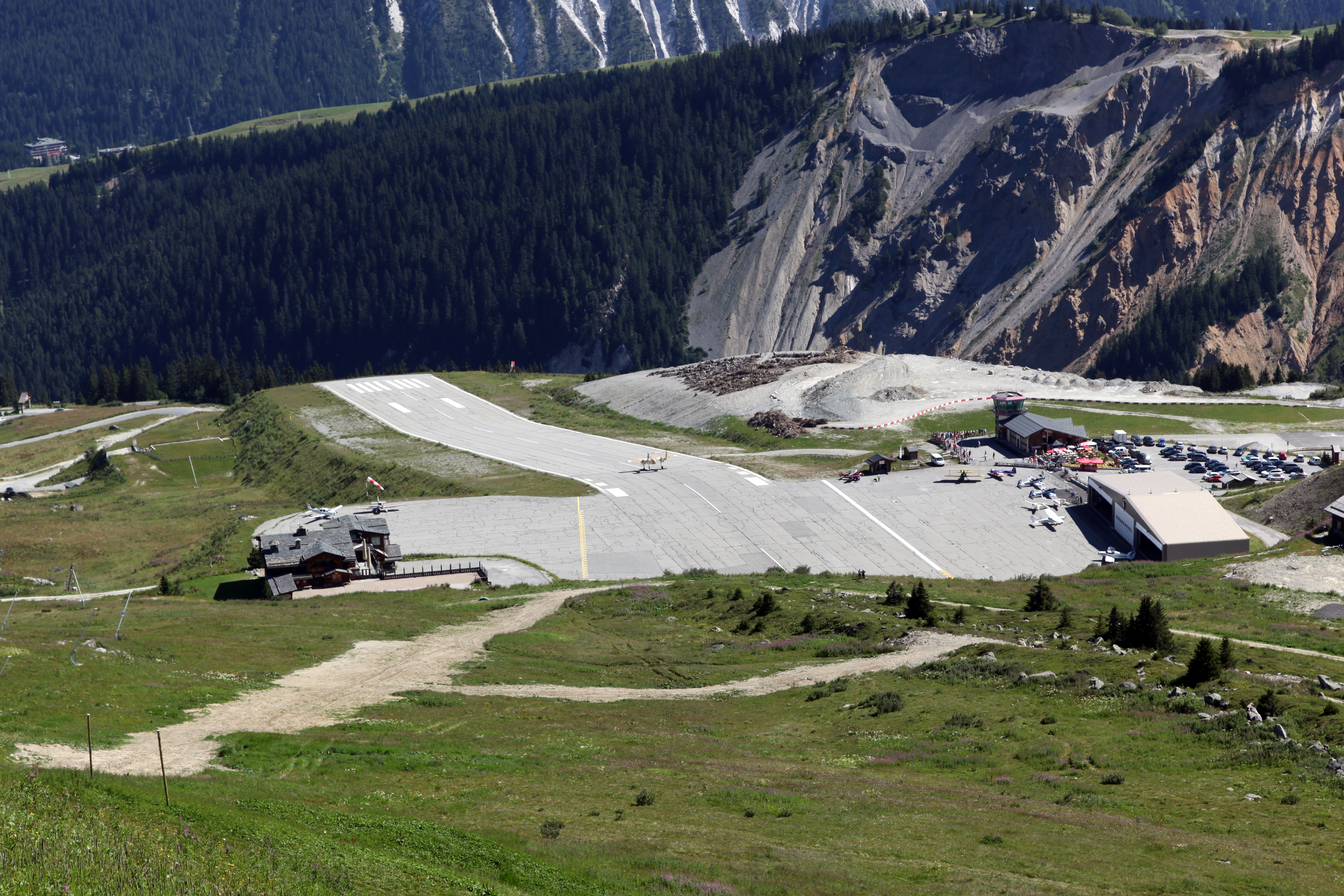 The Airport of Courchevel, called "Altiport"